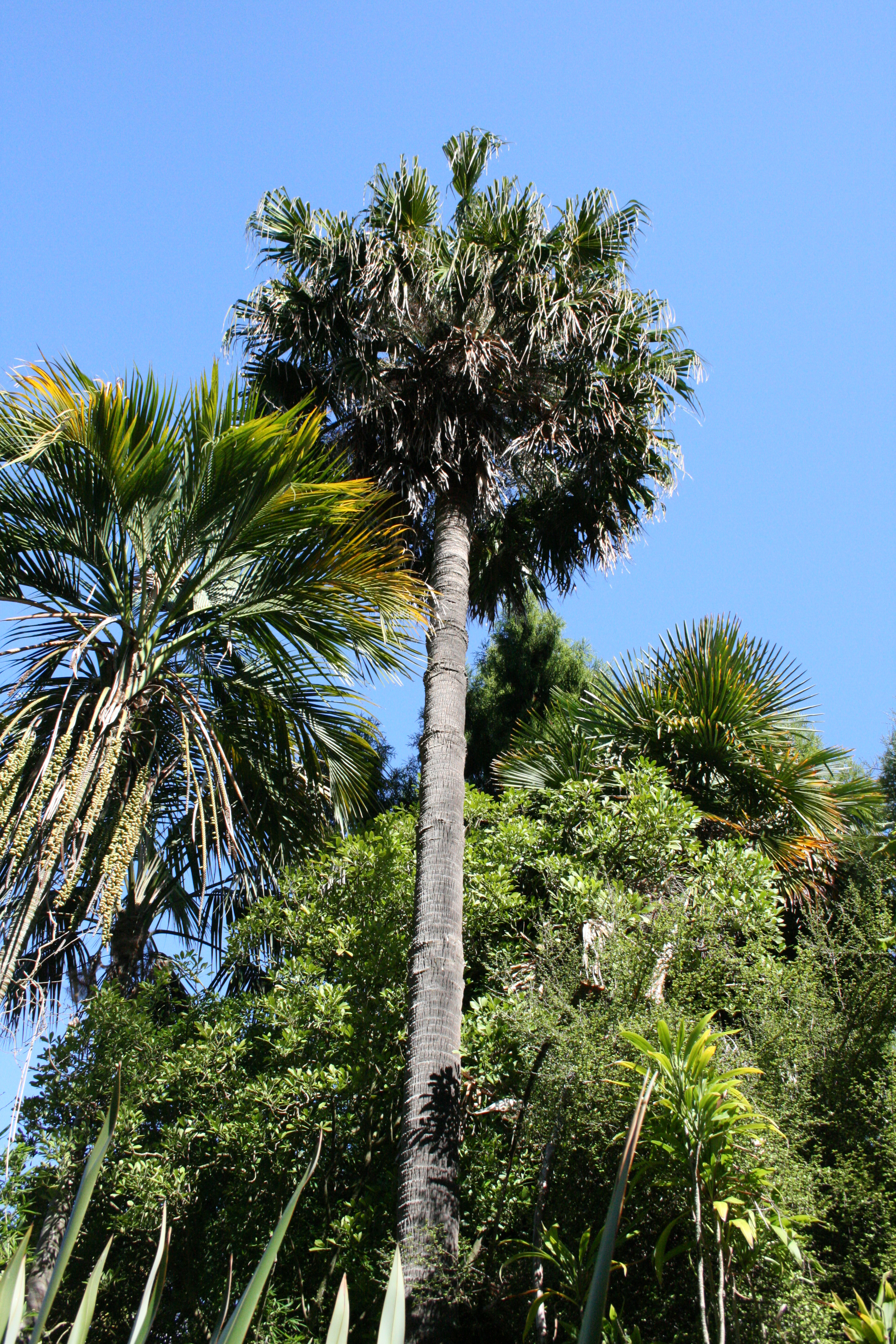 Livistona chinensis, the tall palm in the centre of this image, is a palm endemic to Japan, China and Taiwan. Here it is growing in cultivation at the University of Auckland, New Zealand. The smaller palm to the left is Howea belmoreana.